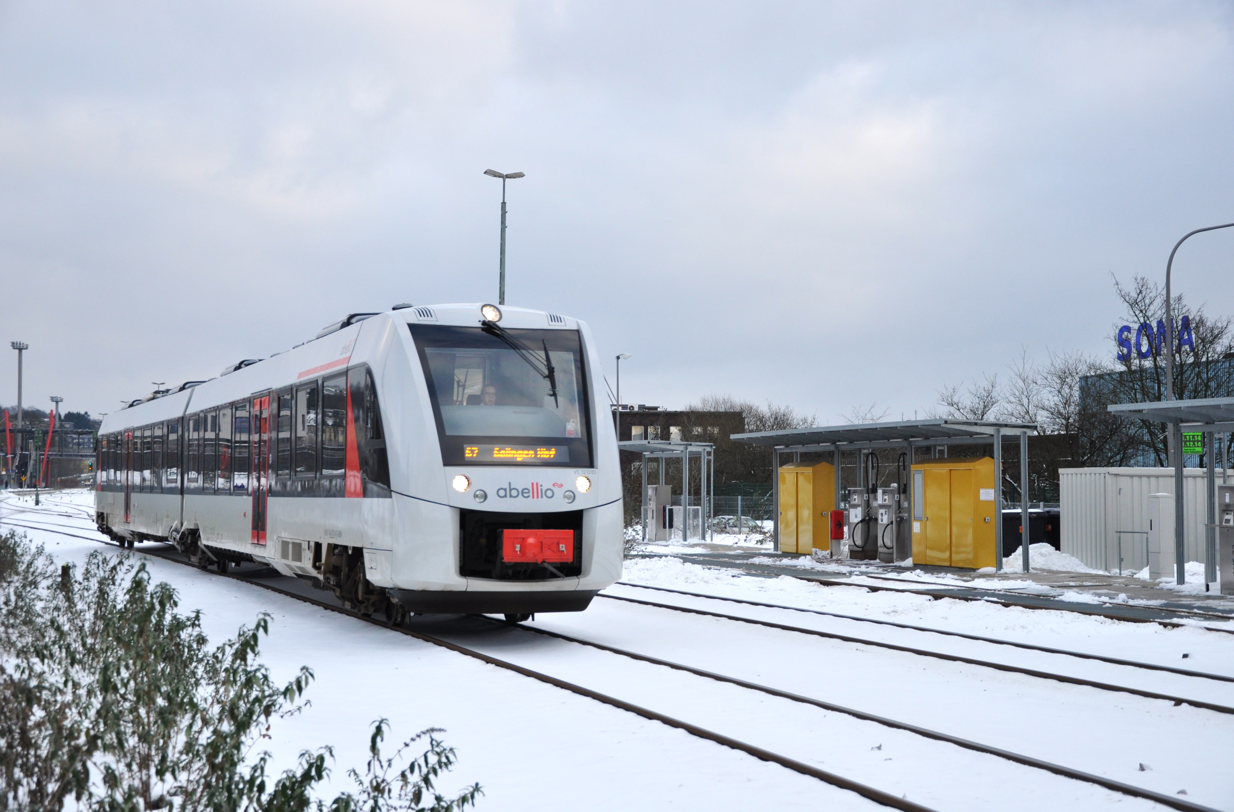 A S7 train of Abellio passes the service station.